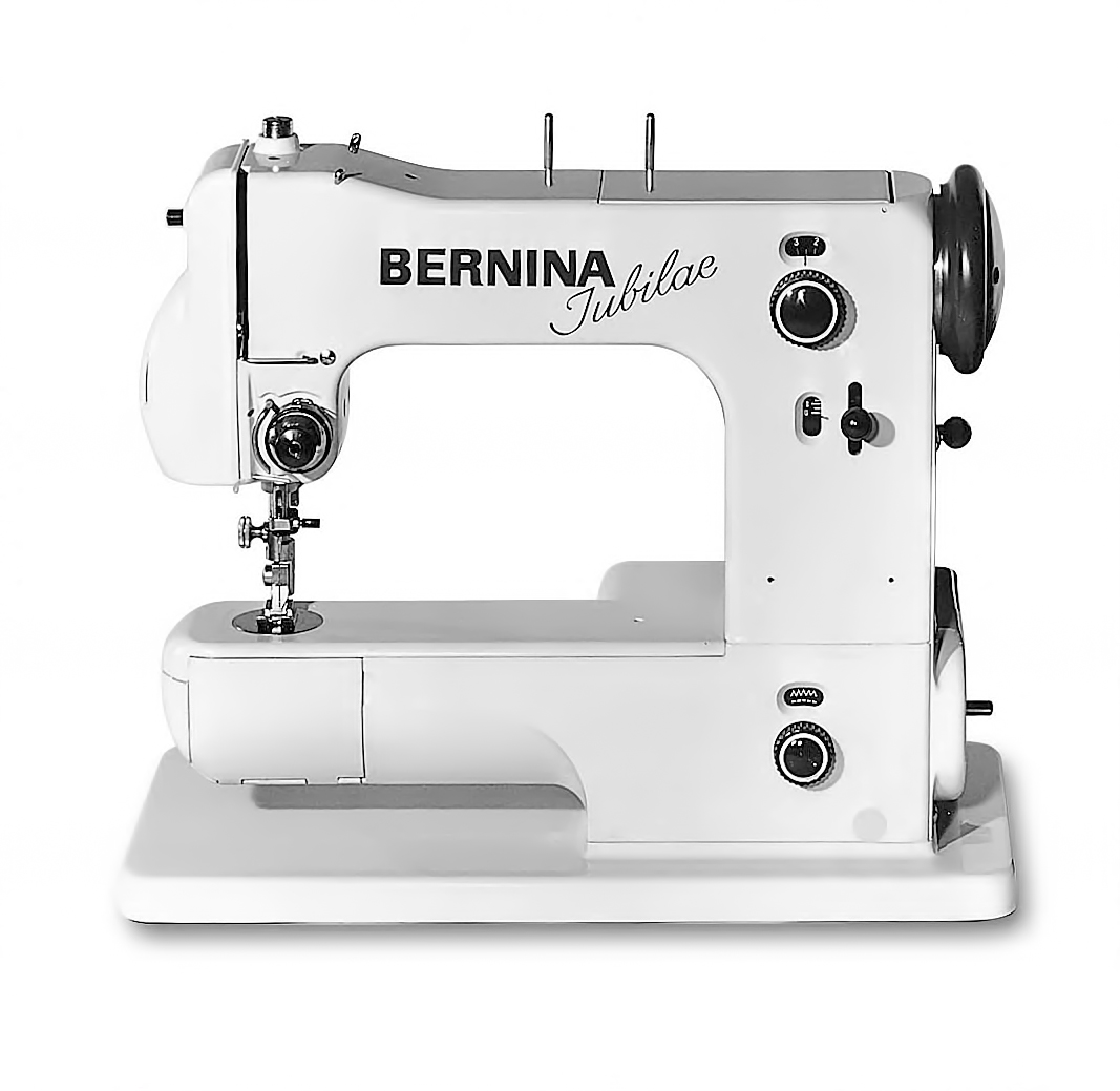 modell 125